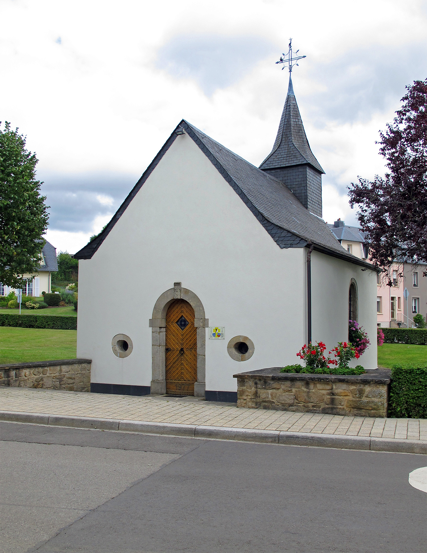 Saint-Maximin chapel in Clemency, Luxembourg